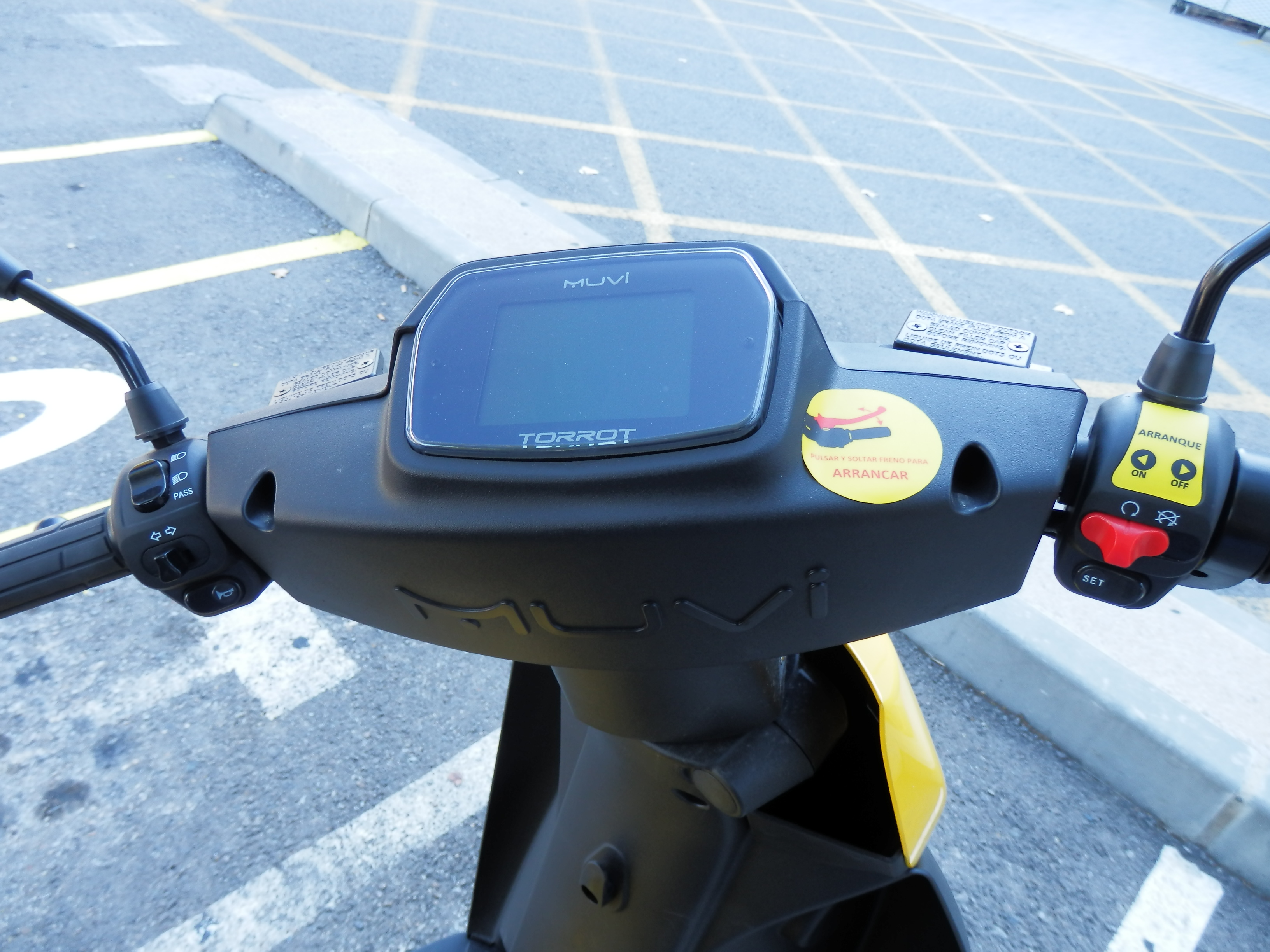 Torrot Muvi electric bike.